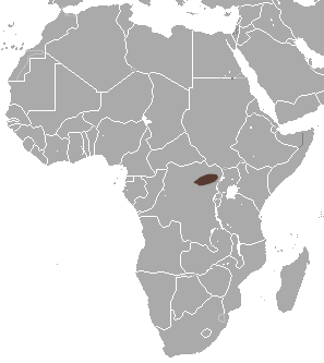 Congo White-toothed Shrew (Crocidura congobelgica) range